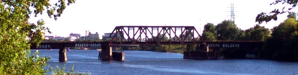 BNSF Northern Pacific Minneapolis Rail Bridge over Mississippi River, Minneapolis, Minnesota, USA. Taken from Psycho Suzi's patio in Northeast Minneapolis. This is not the Camden Canadian Pacific rail bridge, which is further upstream.